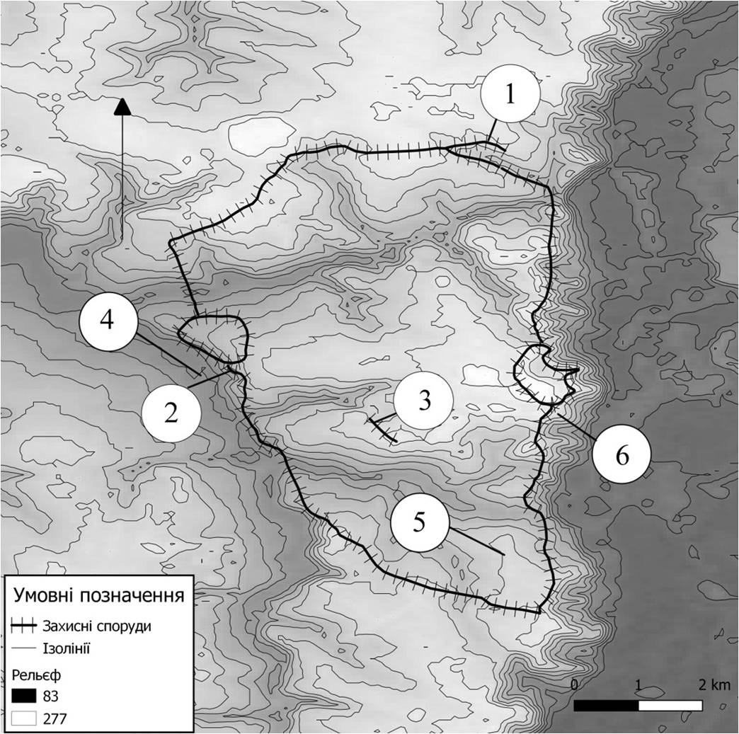 6 - investigations in 2018 - 2019.